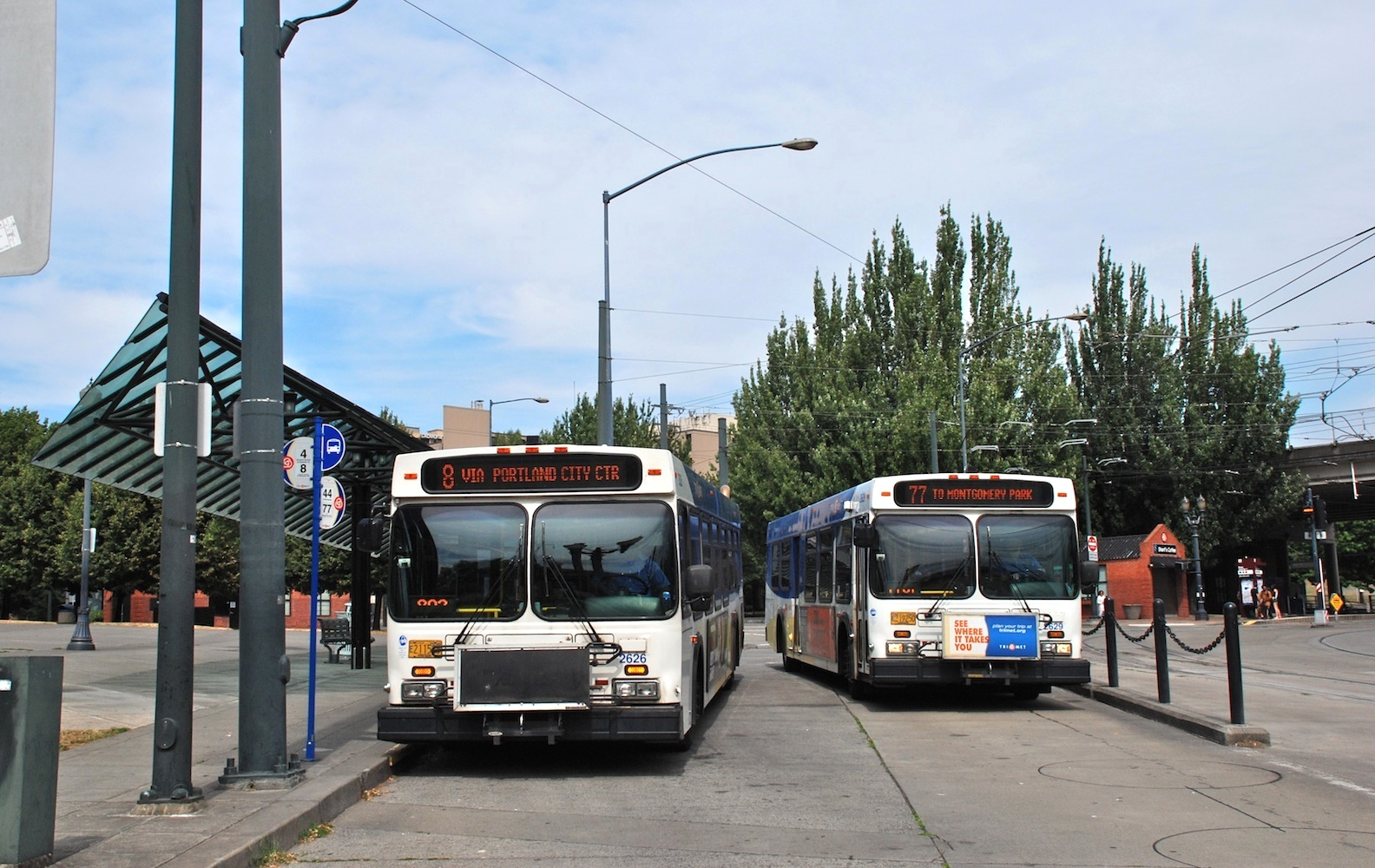 Two TriMet 2600-series buses (New Flyer D40LF buses built in 2002) at the main inbound bus stop at Rose Quarter Transit Center, in Portland, Oregon. At the far right can be seen the tracks and overhead wires of the MAX light rail line and the westernmost end of the MAX station, on Holladay Street, as well as the brick concession building (food and drink outlet).